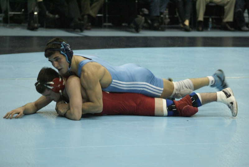 Two college students wrestling (collegiate, scholastic, or folkstyle) in the United States.